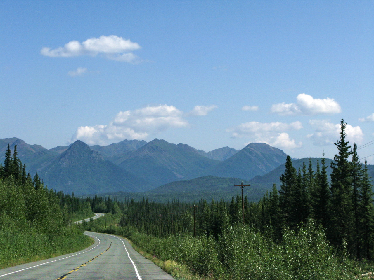 Great Scenes on the Tok Highway